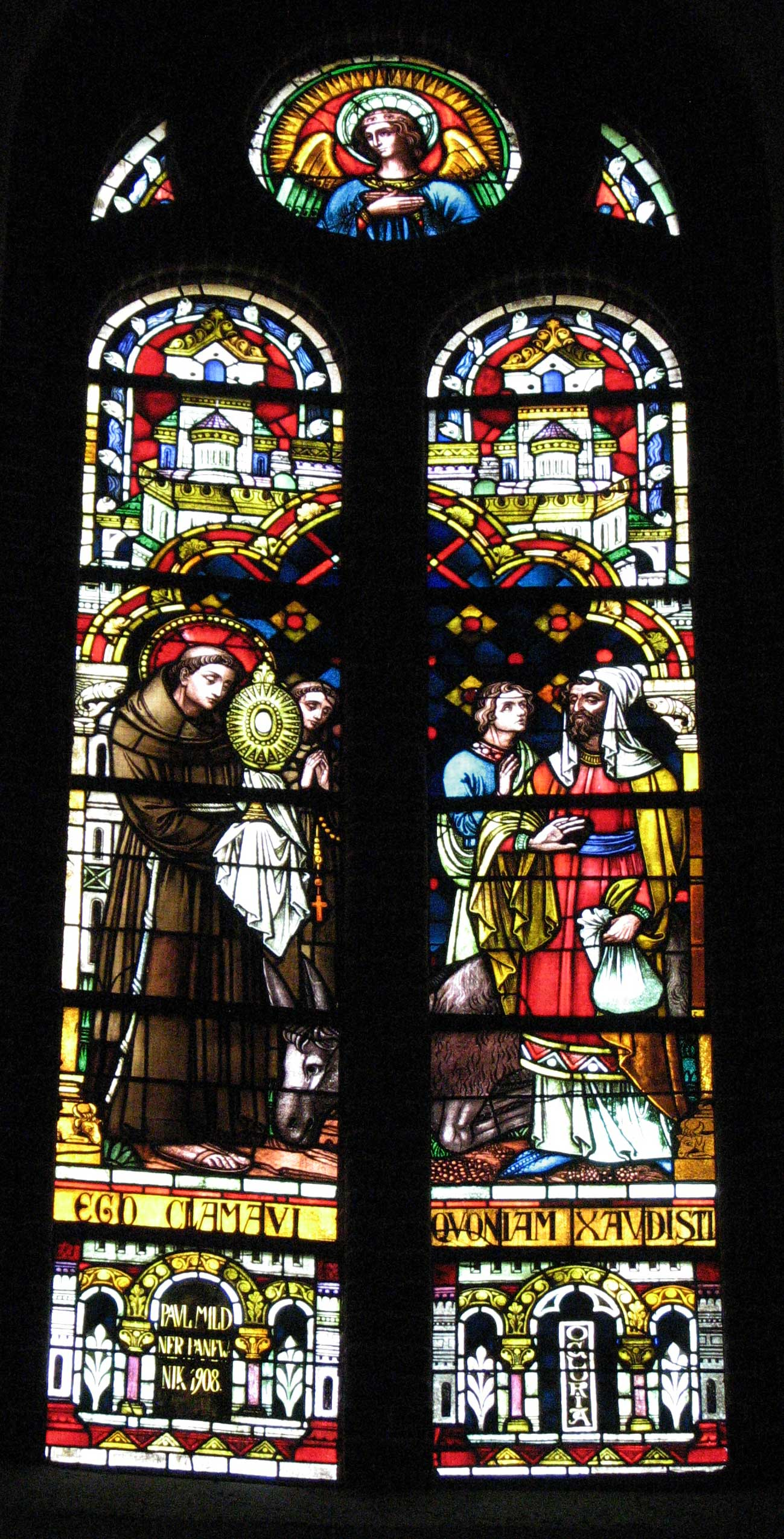 Stained glass window in the transept of the Basilica of St. Louis King in Katowice Poland, XX century - Saint Anthony of Padua